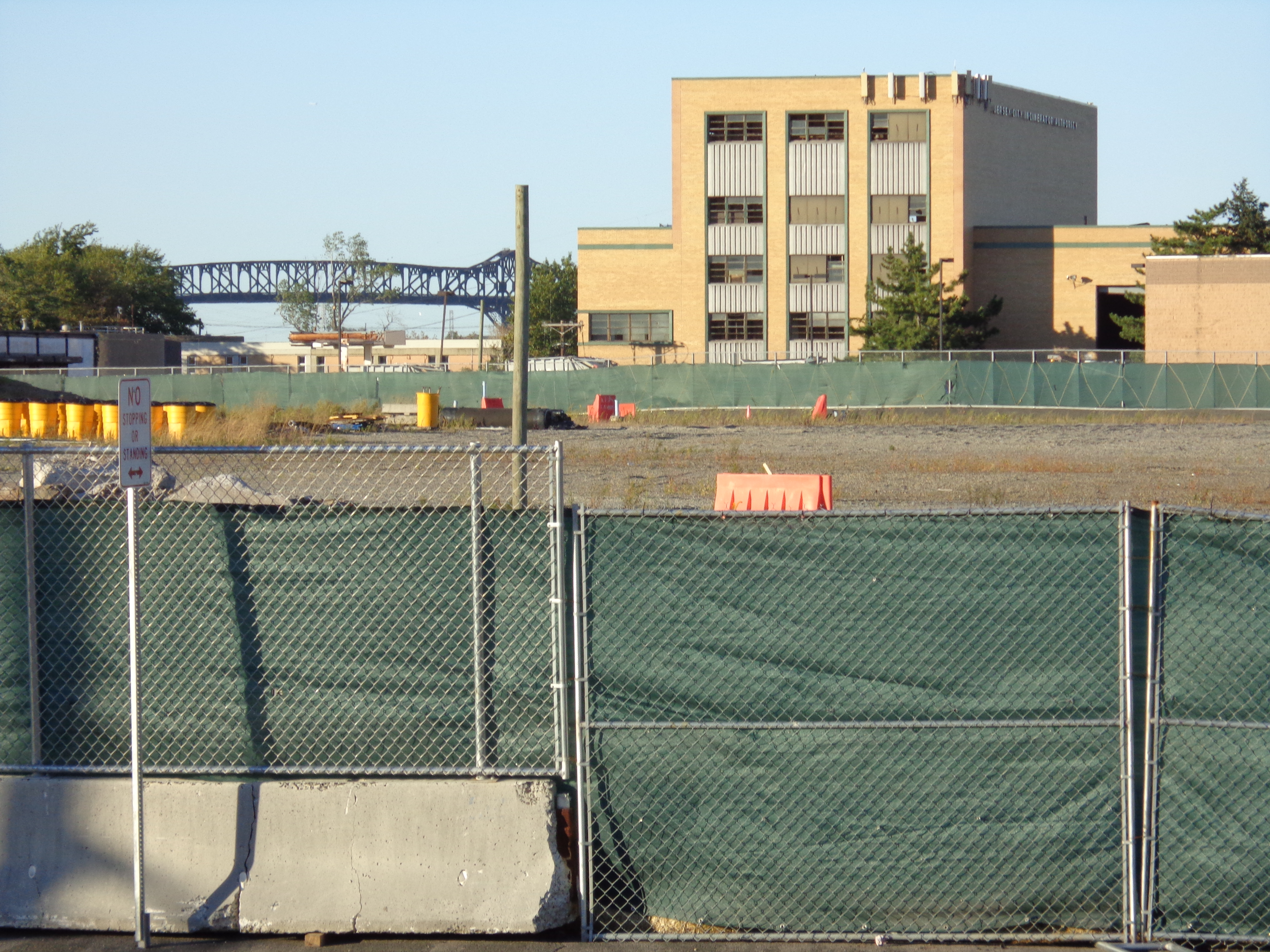 Jersey City Redevelopment Agency/Honeywell "Bayfront Project" on way West Side between Route 440 and Hackensack River